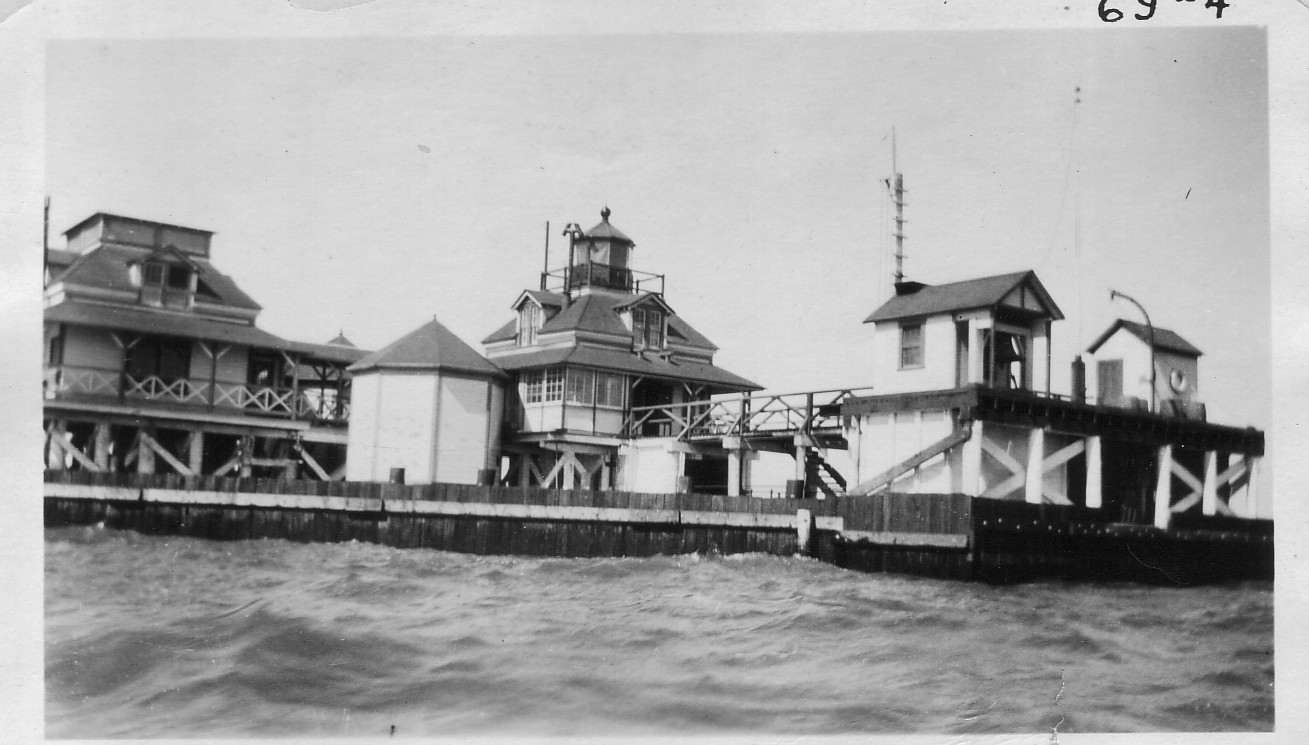 Public Domain statement here; Roe Island Light, 1924: Original caption: "Roe Island New Bulkheads Completed August 7, 1924."; photo dated 1924; Photo No. C94; photographer unknown.